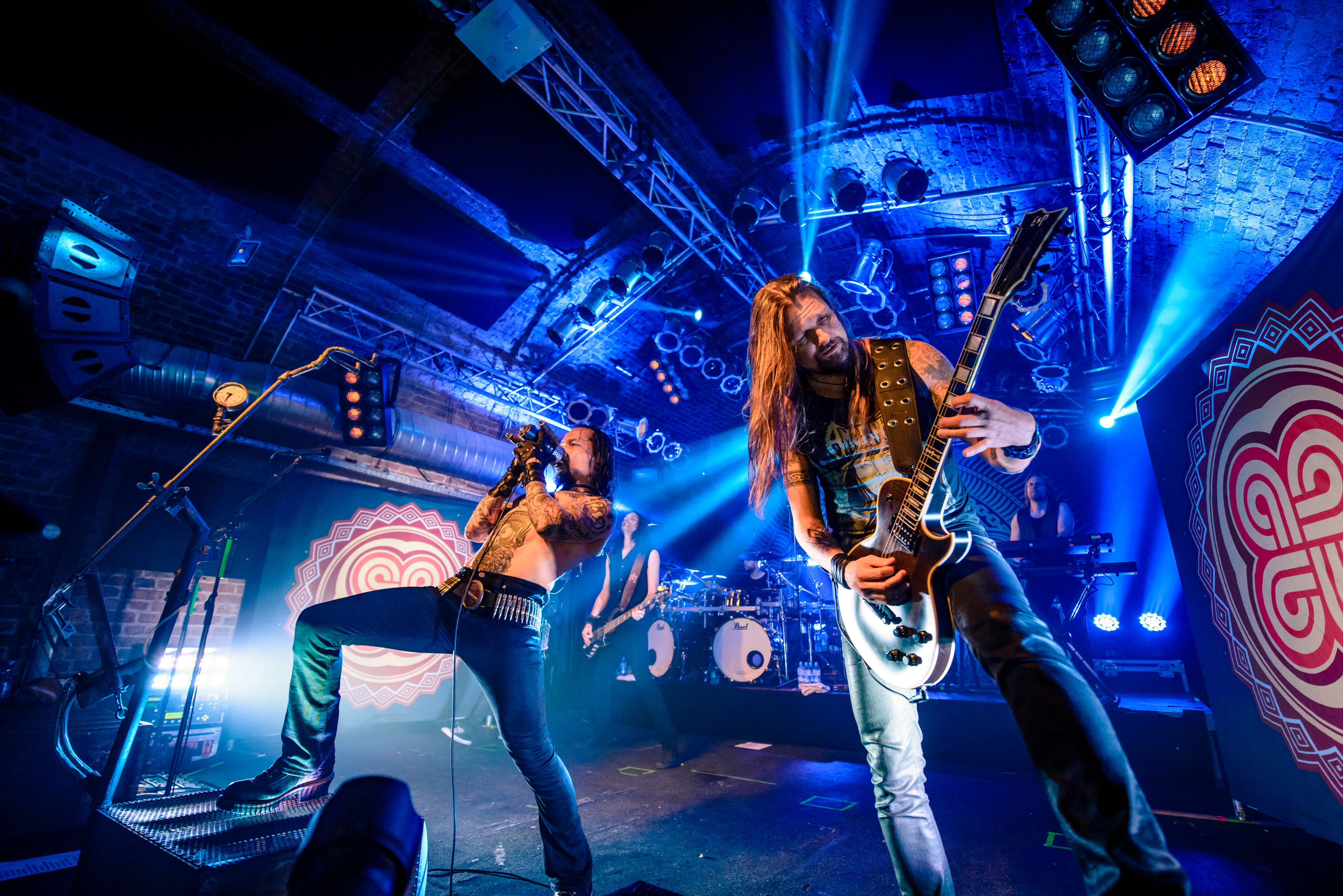 Amorphis - Under the Red Cloud; Matrix Bochum